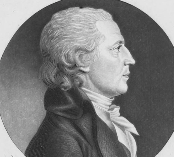 Portrait of Benjamin Dearborn of Boston (ca.1755-1838), drawn and engraved by L. [Lenet?] of Philadelphia